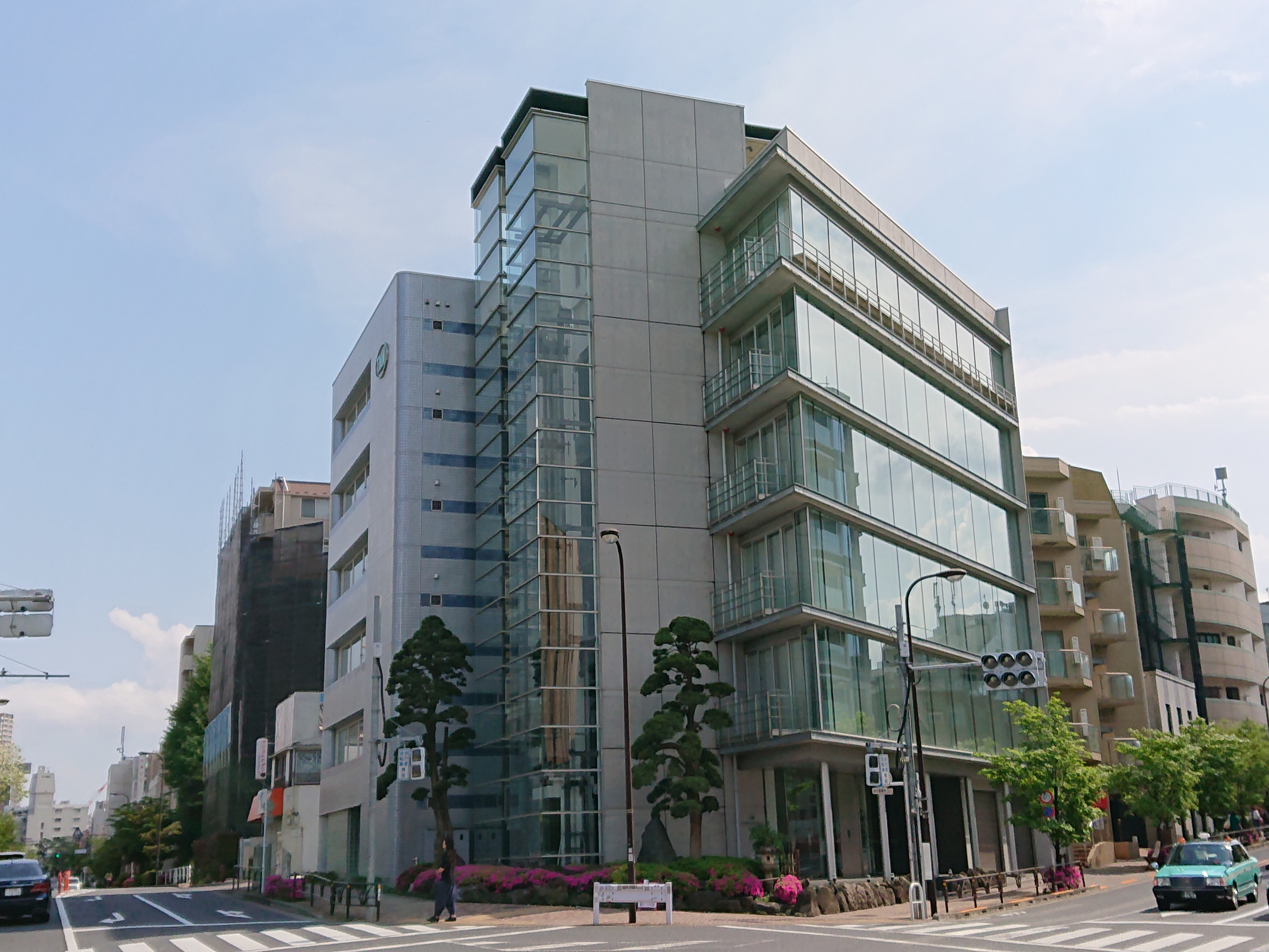 Tajimi Electrics headauarters, at Ebisuminami, Shibuya, Tokyo, Japan